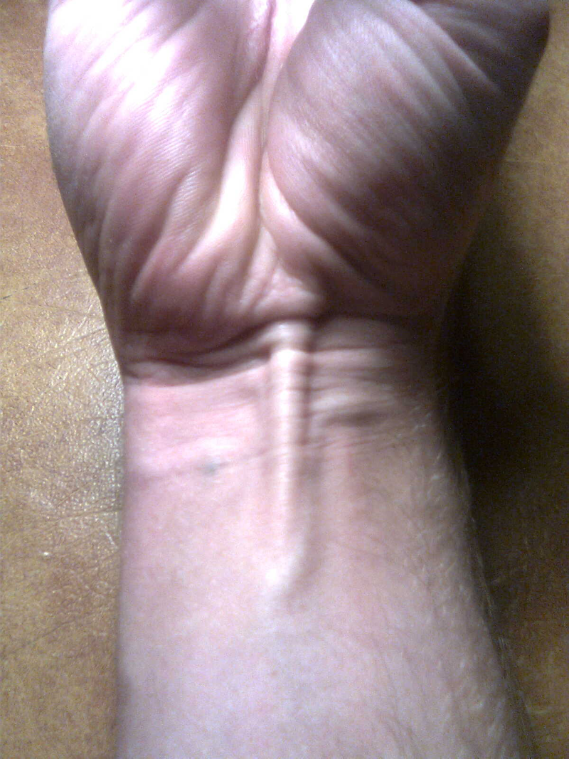 Picture of the palmaris longus tendon visible on the anterior aspect of the wrist when the wrist is flexed while touching the 1st and 5th digits together.